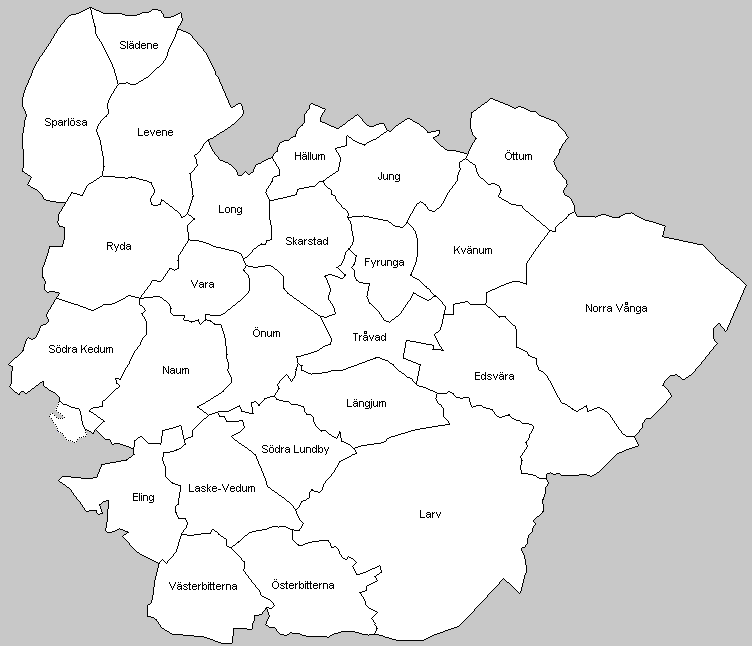 Parishes in Vara municipality